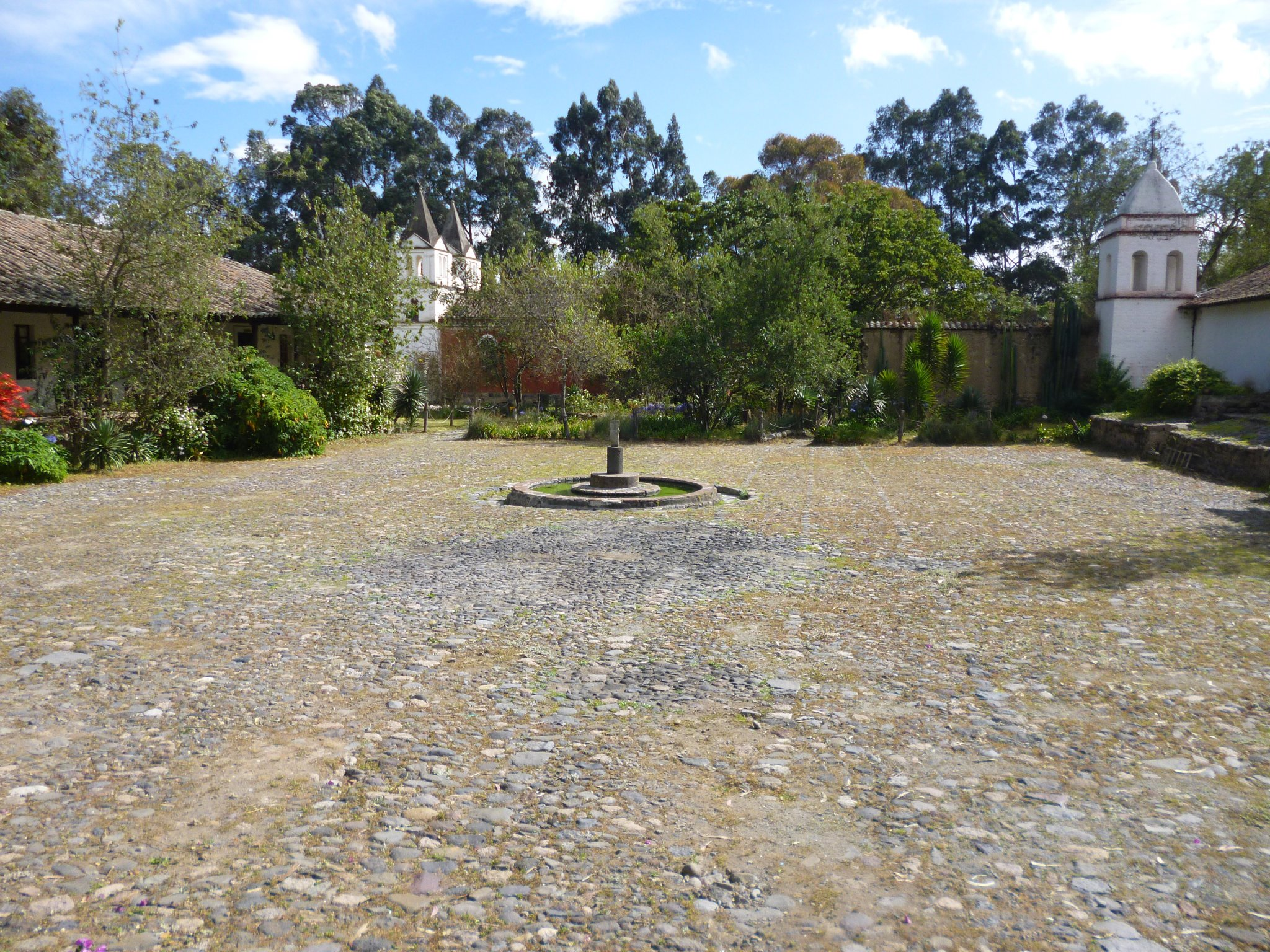 Courtyard view of Hacienda Guachalá.